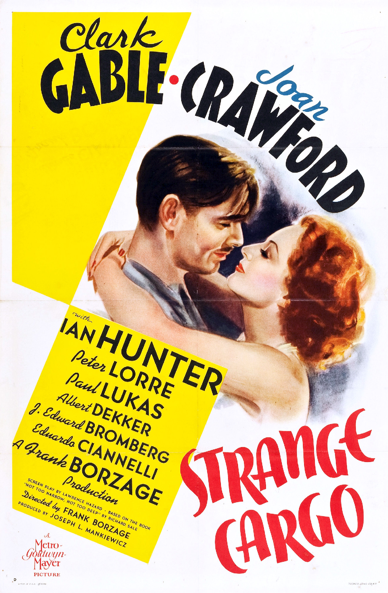 Poster for the 1940 film Strange Cargo!. The item has no copyright markings on it as can be seen in the links above. At lower left is "D" (poster version D), Litho in USA #4393. At lower right is Tooker Litho Co., NY-they printed the poster.